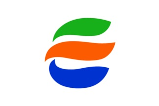 Flag of Echizencity Fukui